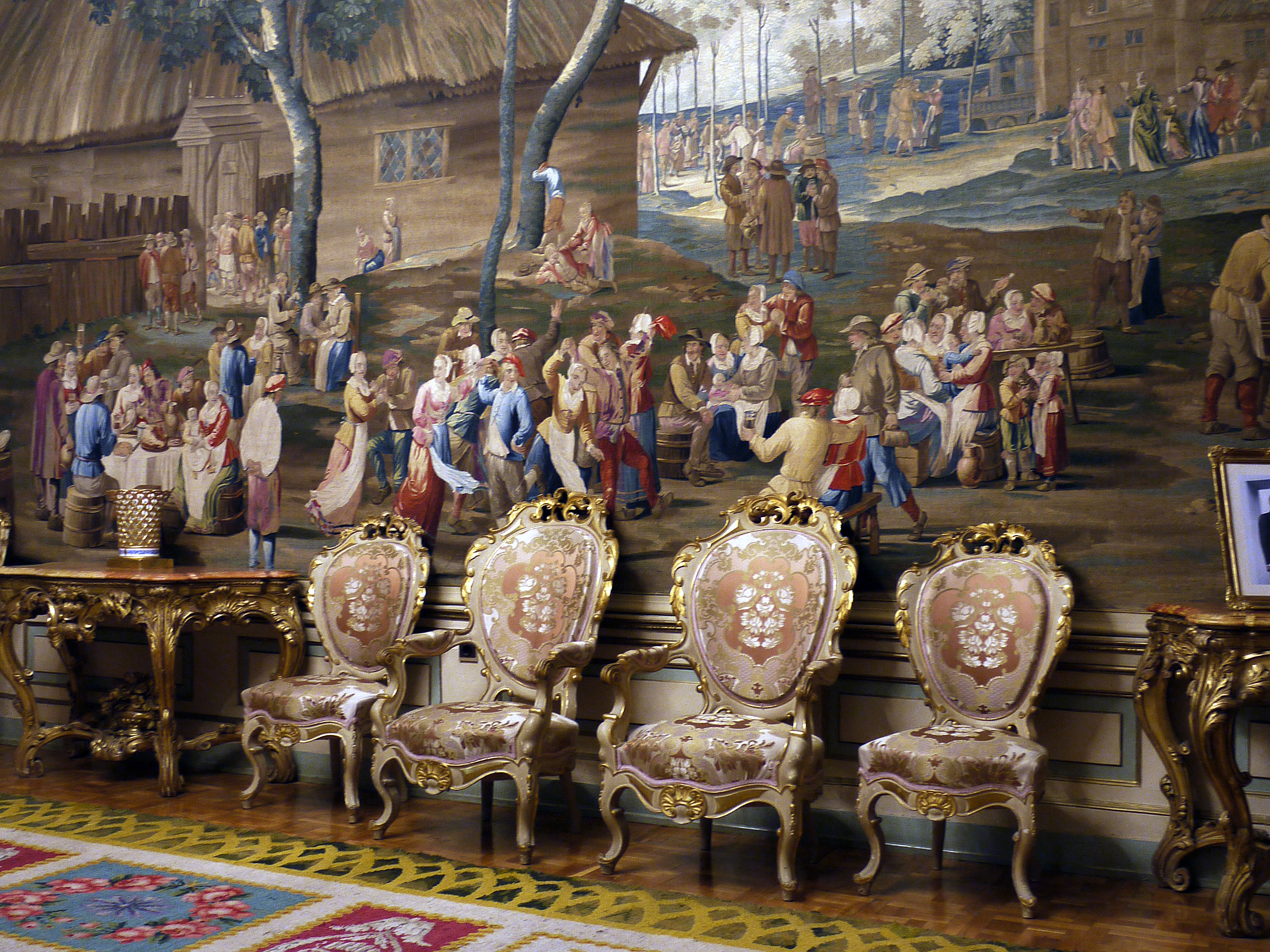 Royal Palace at El Pardo, interior, Madrid, Spain